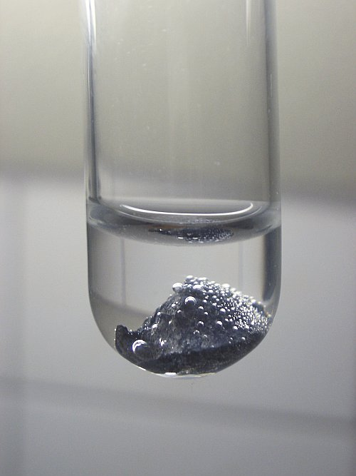 Praseodymium reacting with water, a typical reaction of the lanthanides